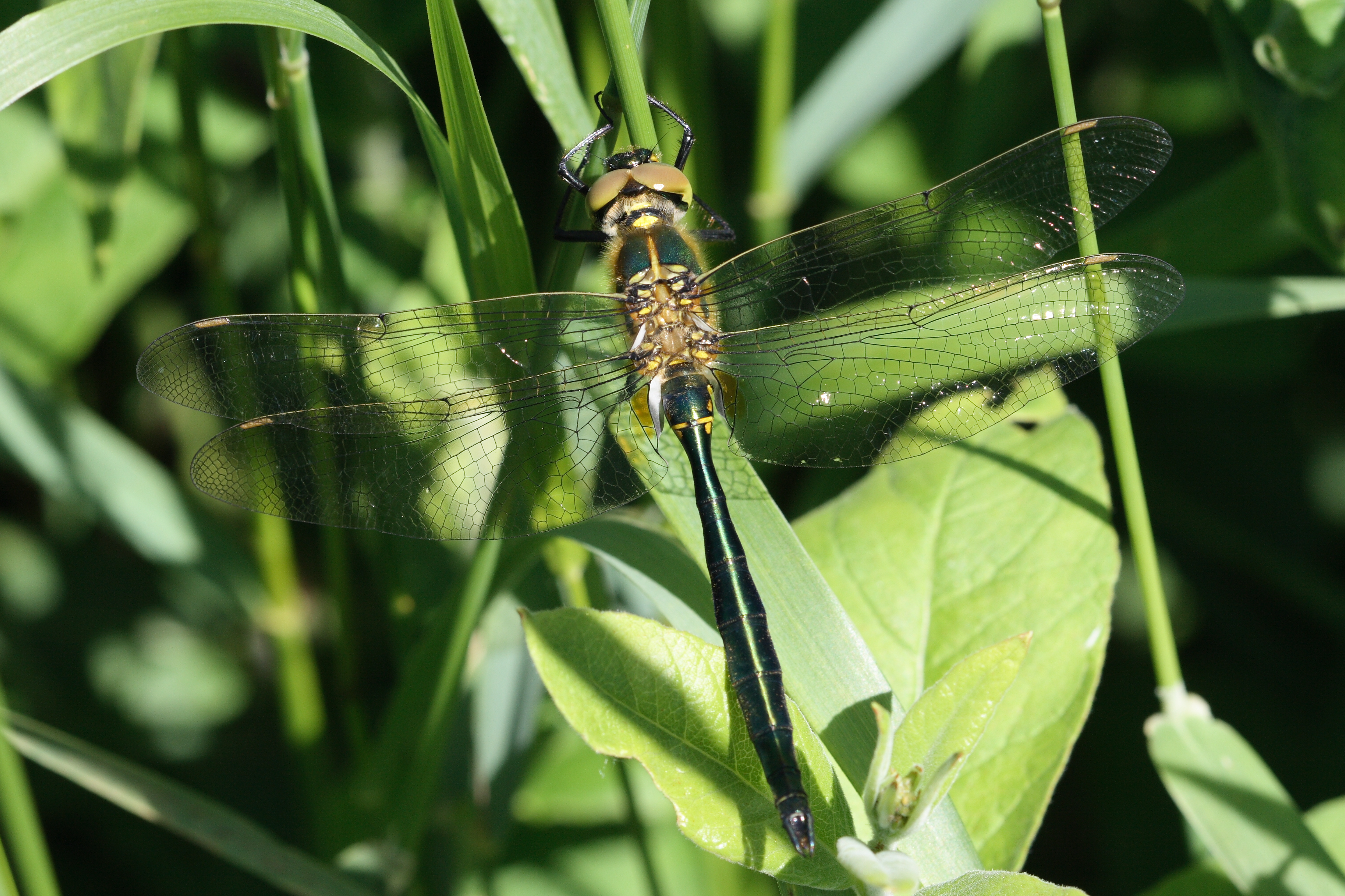 A just hatched male of the Brilliant Emerald (Somatochlora metallica) in the Ahlenmoor, a peatland in northern Lower Saxony, Germany.Consider the uniformly brightly colored compound eyes and the gloss of the not yet completely hardened wings, which refer to freshly hatched individuals. Ripe specimens are nearly only found patrolling.